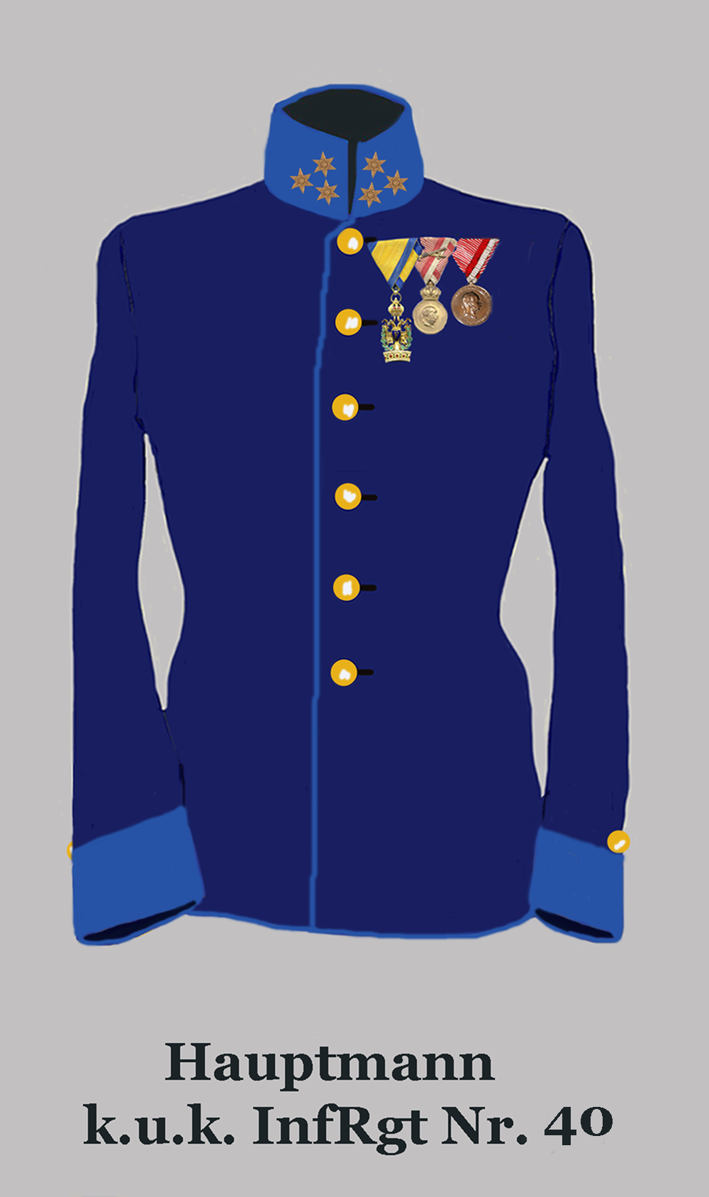 Captain of the Austria-Hungarian Army (German 40th Infantry Regiment) Coat with klight-blue collar and yellow buttons